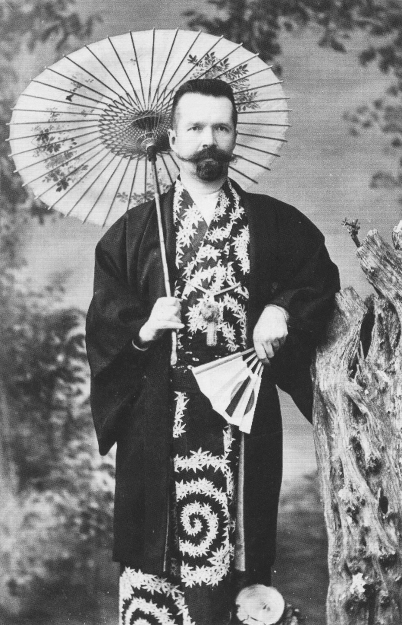 P. V. Syuzev in Nagasaki